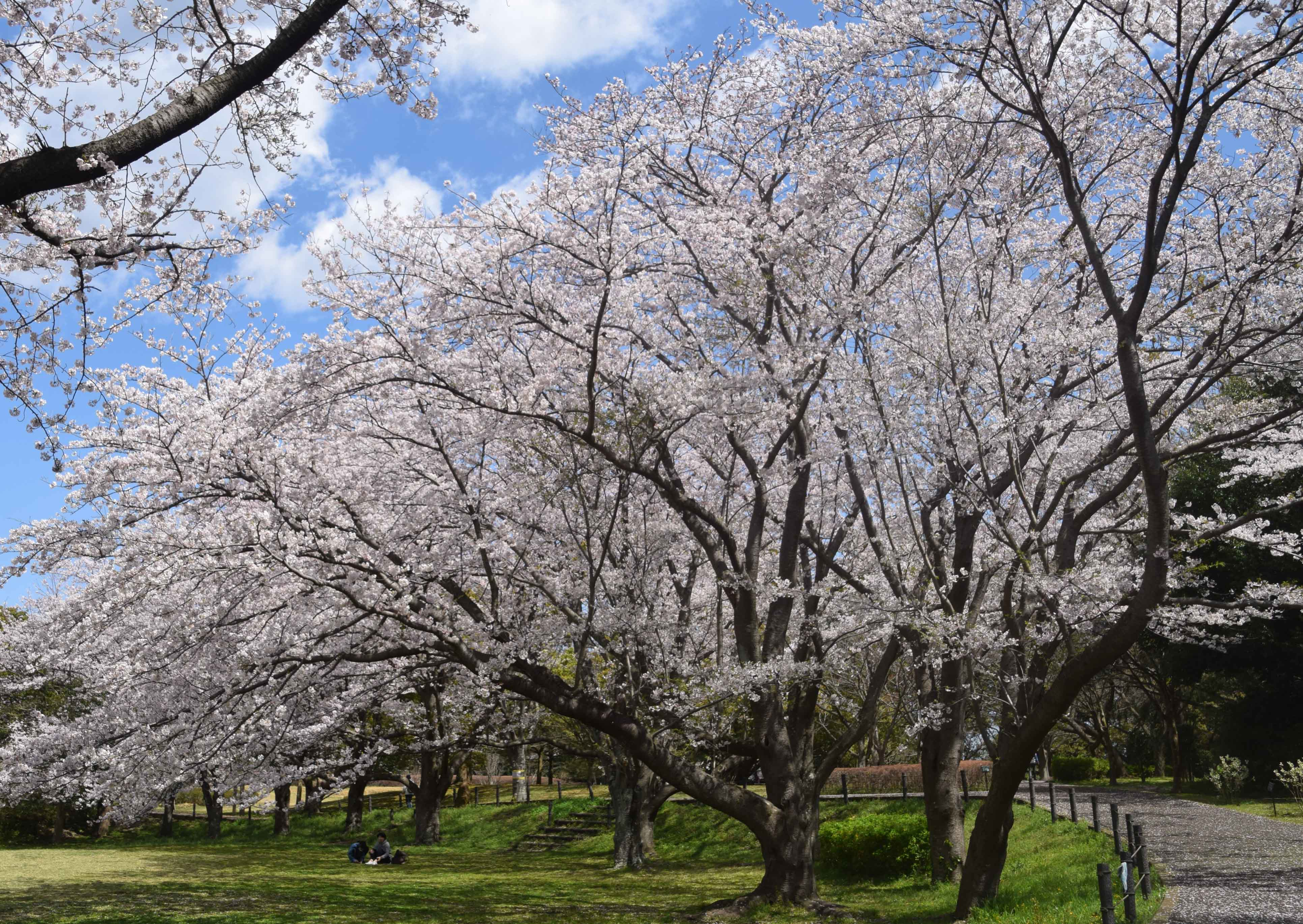 Cherry blossoms in Oba Castle Park, Fujisawa, Kanagawa, Japan